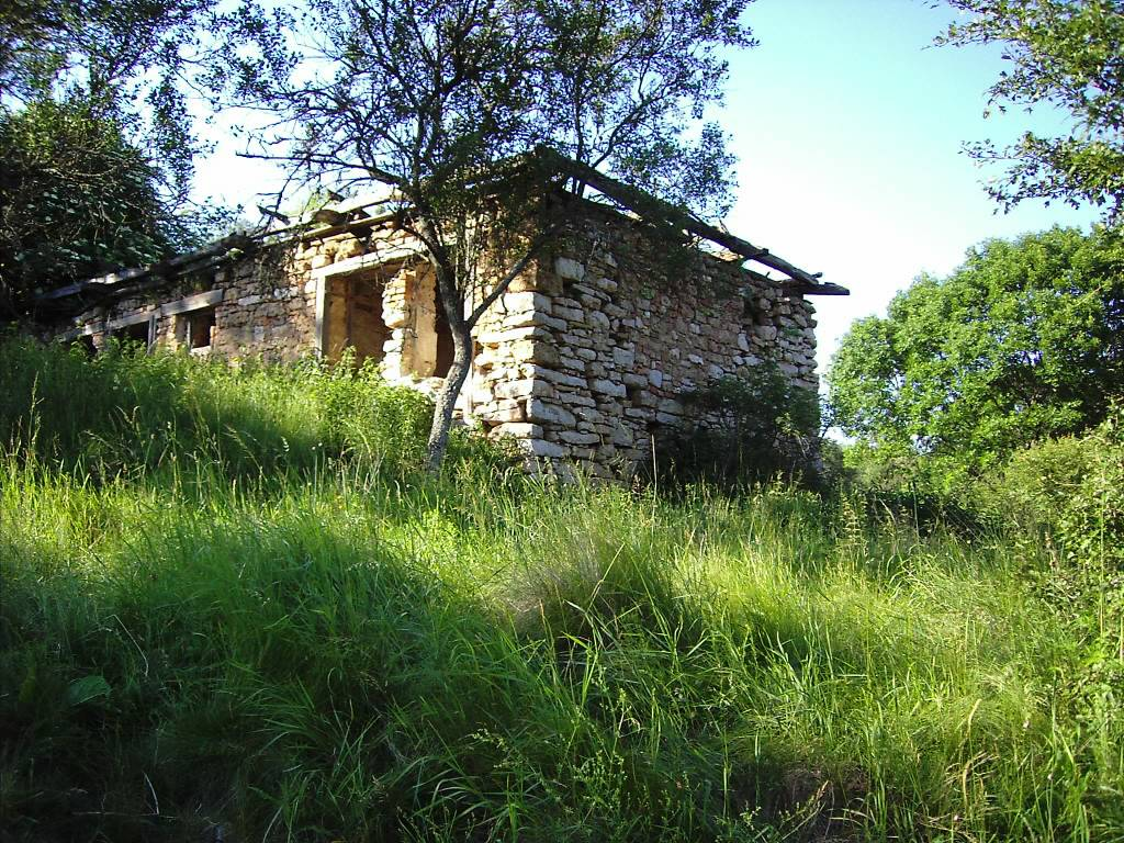 Ruins of house in the ruined village Derenk, Hungary.